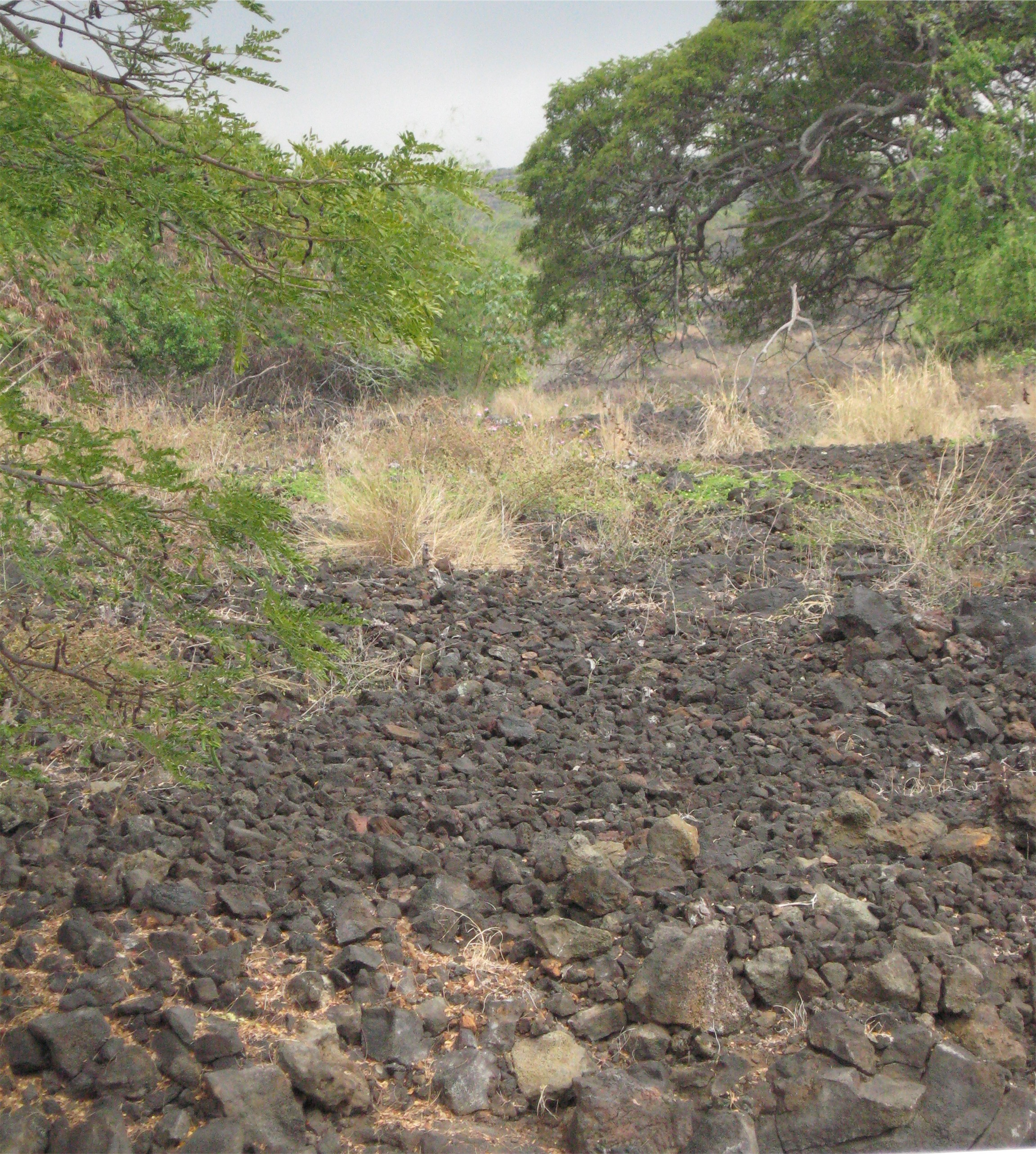 Remains of the Keauhou Holua, ancient royal Hawaiian lava slide, taken from Ali'i Highway, opposite the Keauhou country club. The site has been designated a National Historic Landmark.